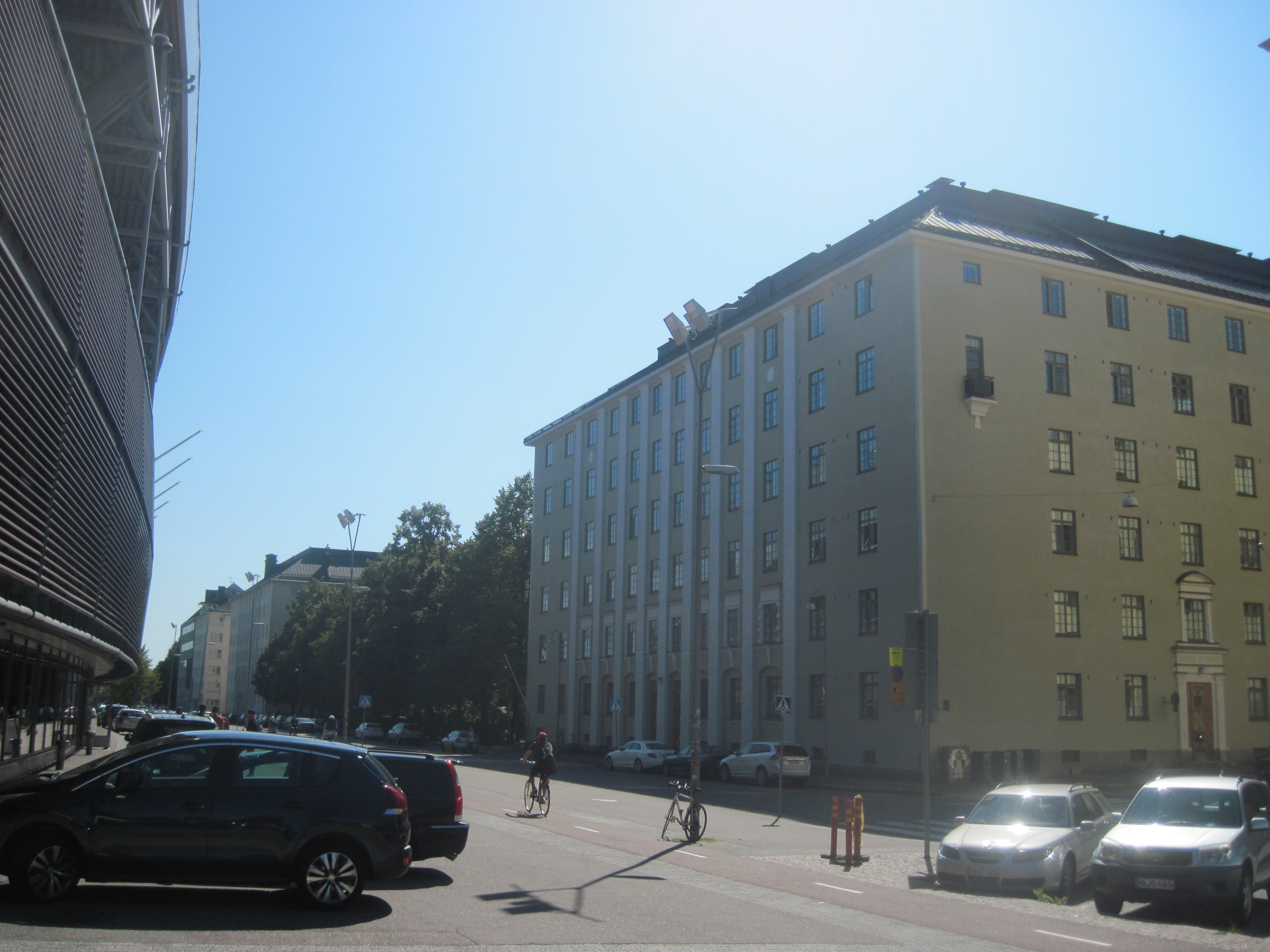 The so called Gripenberg Block in Helsinki, as seen from Urheilukatu